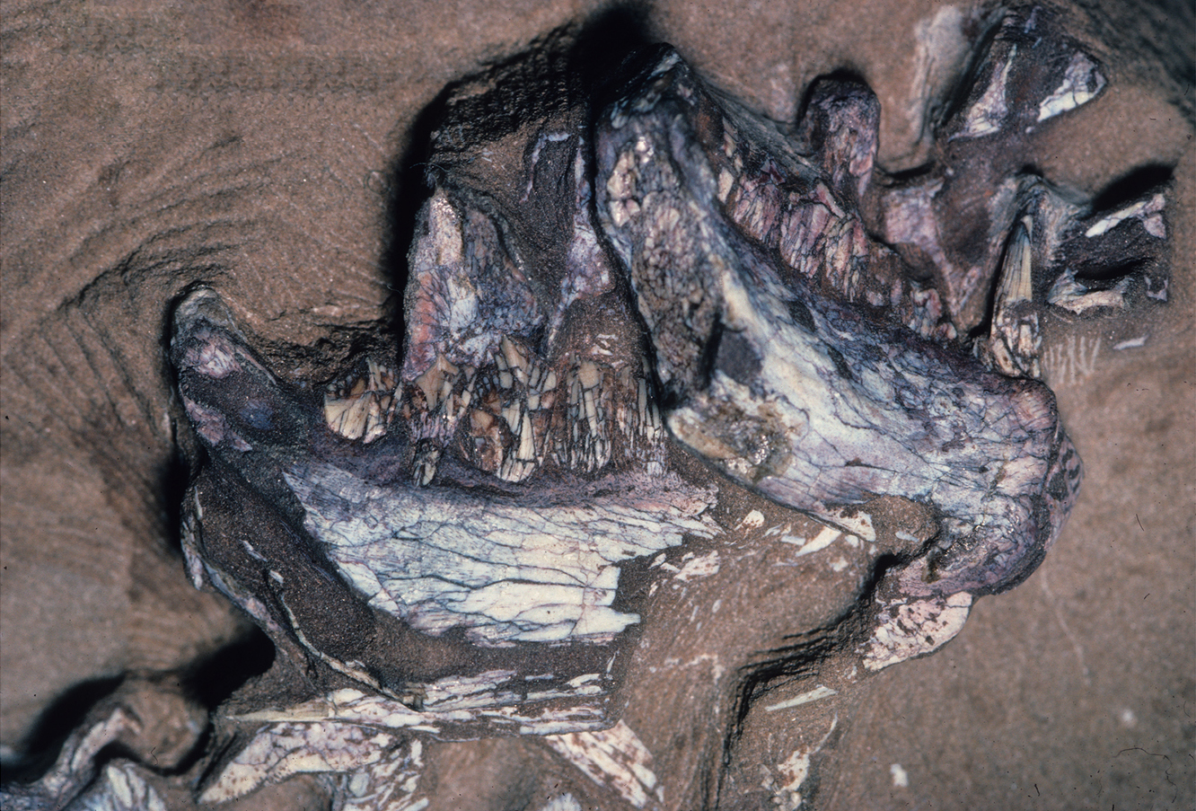 Lower jaws of Pegomastax africana gen. n. sp. n. (SAM-PK-K10488) in right ventrolateral view. It shows what is described as peculiar, molar-like teeth and a sparring fang, very similar to those of fanged deer and peccaries.[1] ↑ New Fanged Dwarf Dinosaur Found